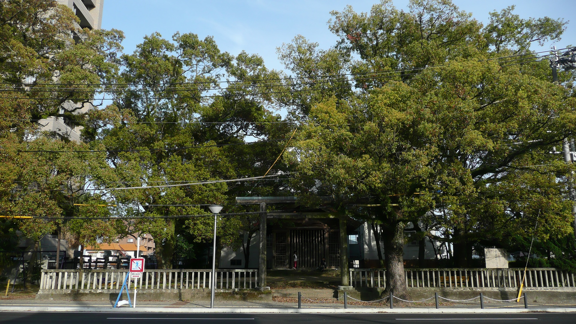 Miyazaki Shrine Segashira Otabisho (Miyazaki City, Japan)